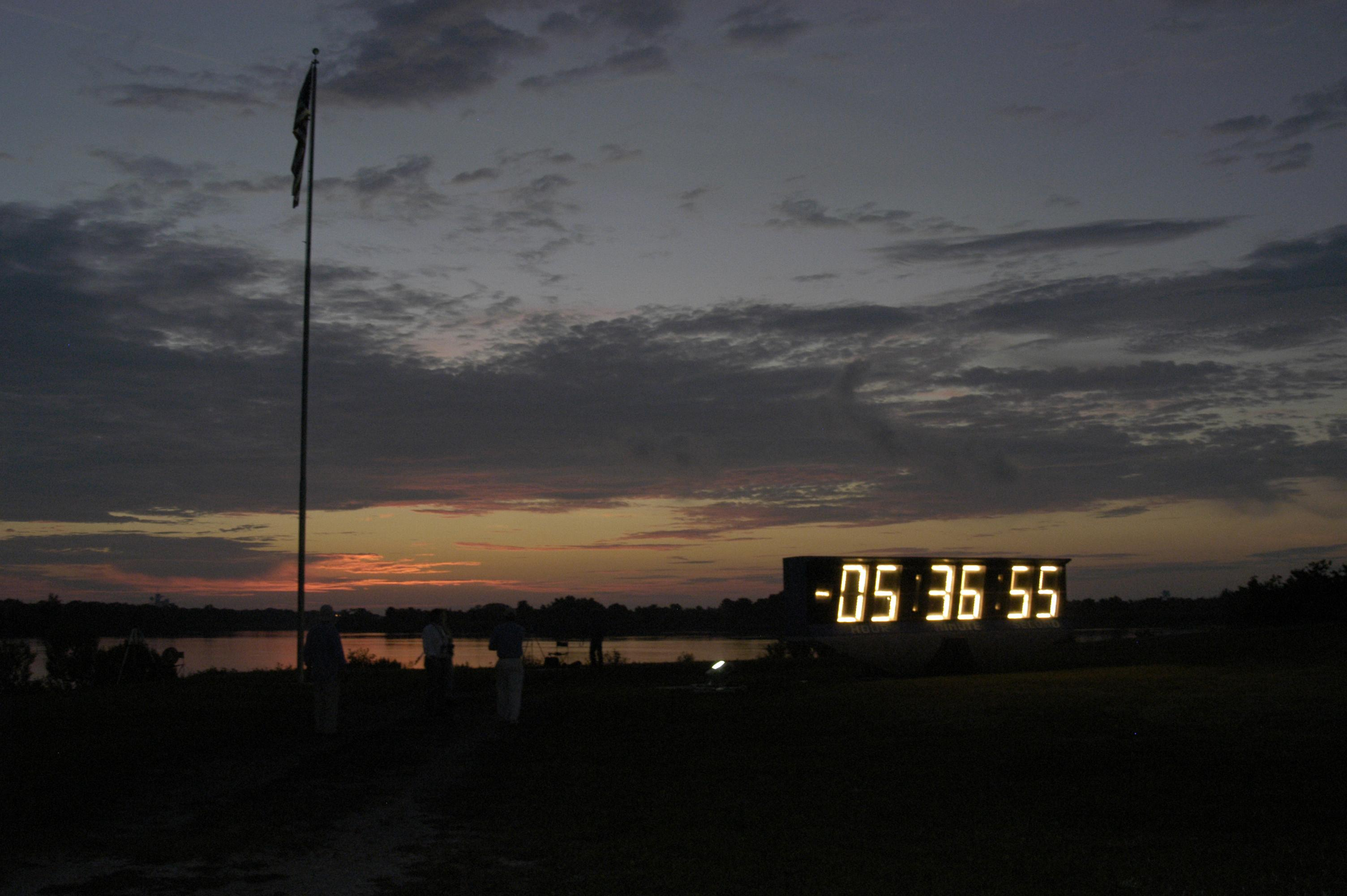 The countdown clock at NASA Kennedy Space Center glows in the dark as a hint of dawn creeps over the horizon. The clock counts down the hours until launch of Space Shuttle Discovery on Return to Flight mission STS-114 to the International Space Station. This is the first Space Shuttle flight since the loss of Columbia, STS-107, on Feb. 1, 2003. Launch is scheduled for 3:51 p.m. EDT from Launch Pad 39B. The 12-day mission is expected to end with touchdown at NASA Kennedy Space Center’s Shuttle Landing Facility at 11:06 a.m. July 25.